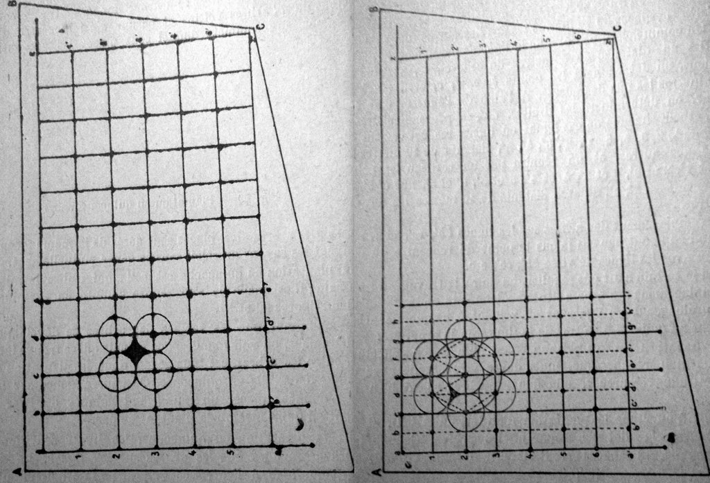 Orchard disposal